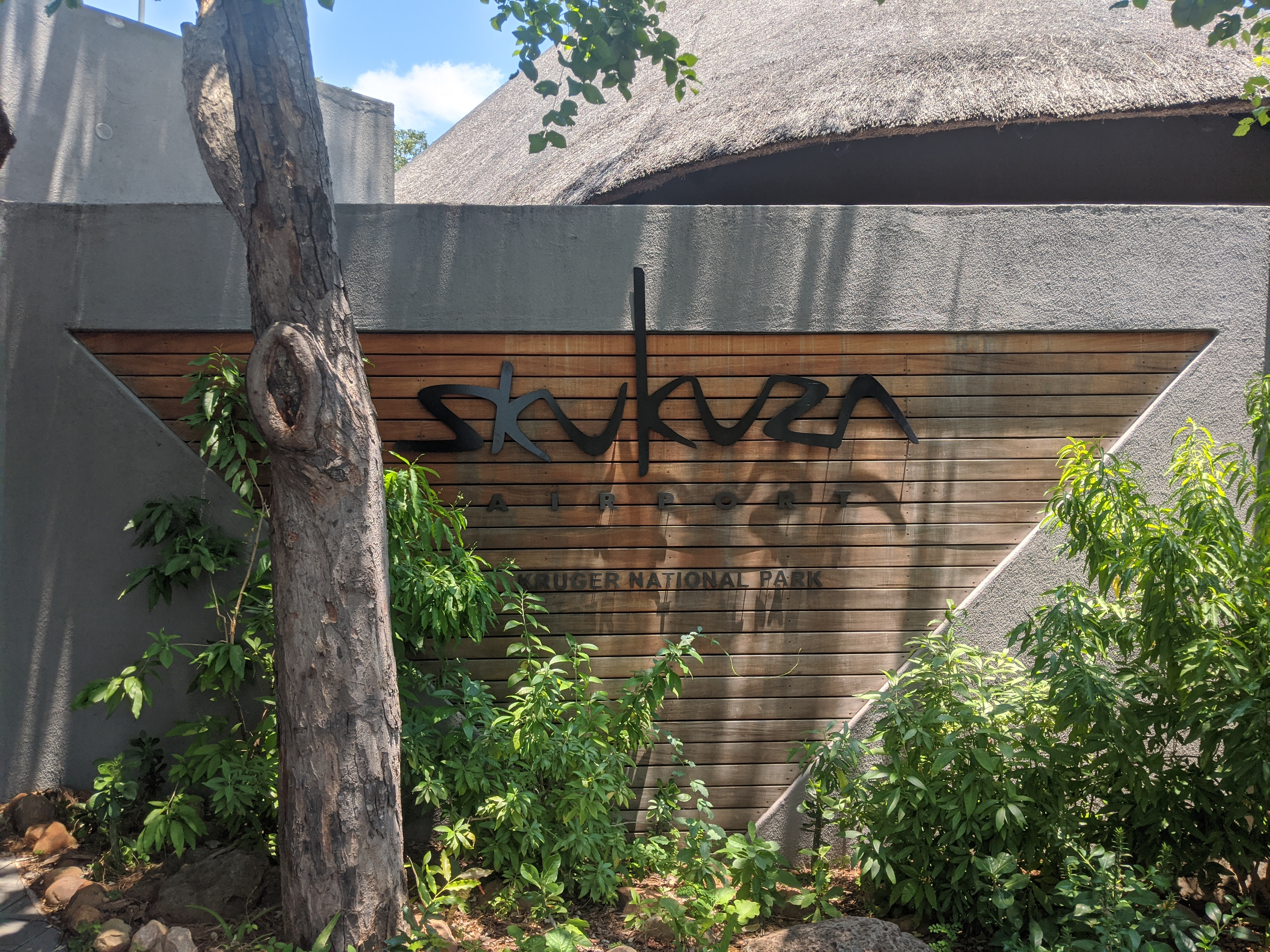 This is the entry sign welcoming you to Skukuza Airport